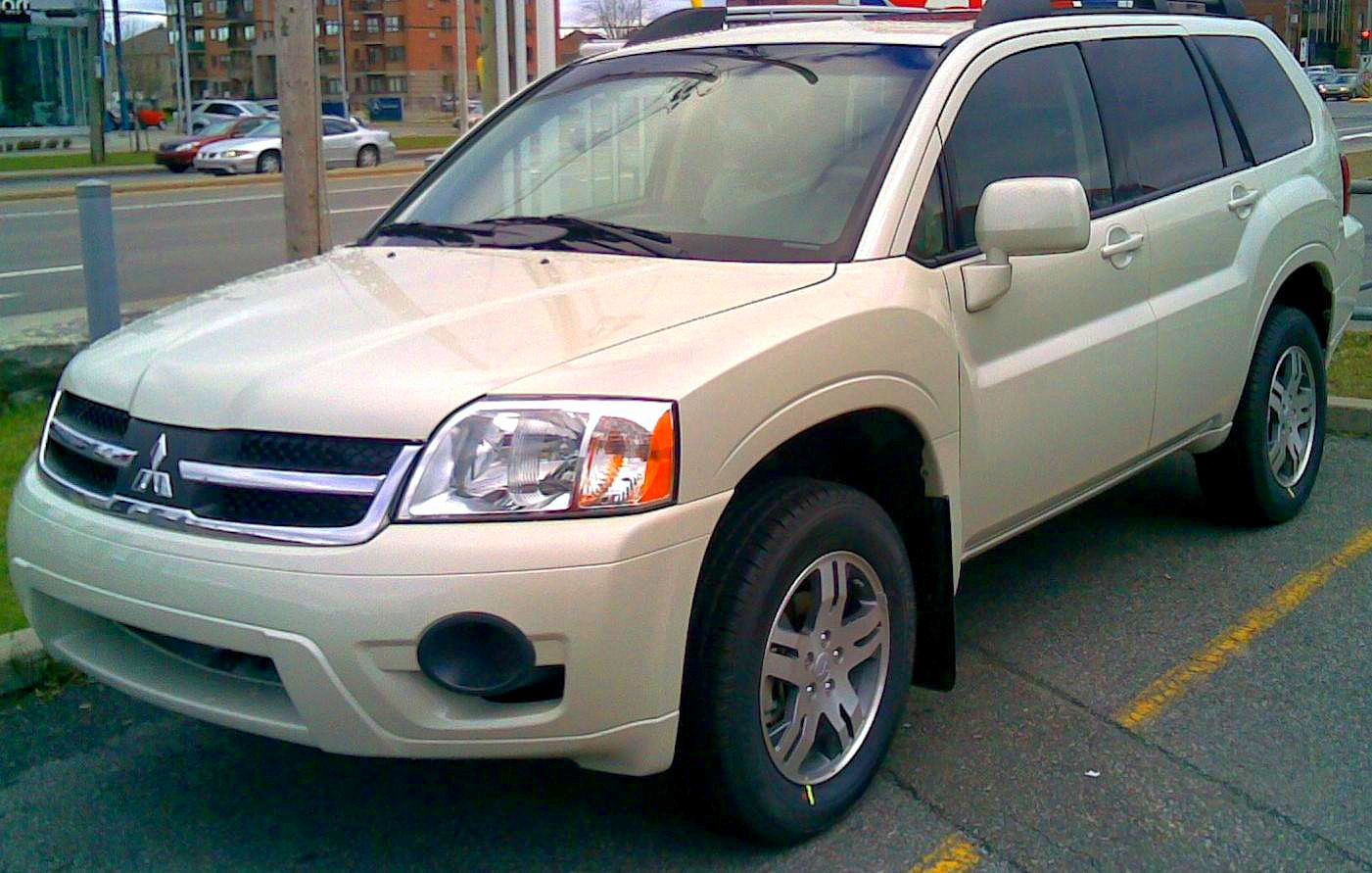 2007 Mitsubishi Endeavor photographed in Montreal, Quebec, Canada.